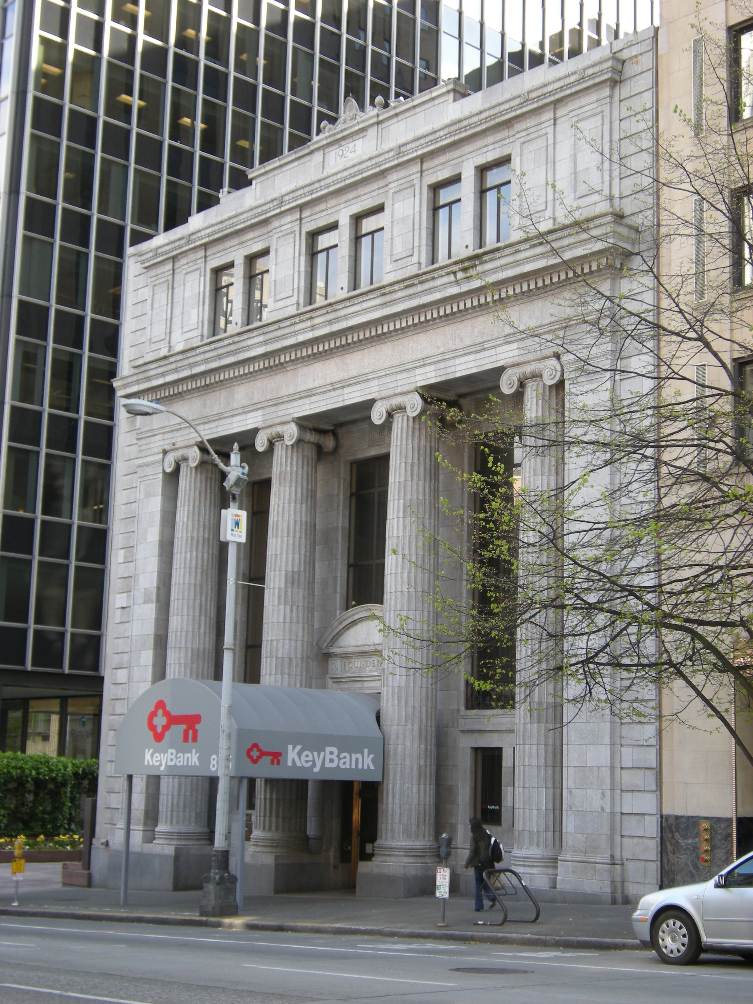 815 Second Ave, Seattle, Washington, USA. The building, now a KeyBank, was originally built for the Bank of California. It is an official city landmark.